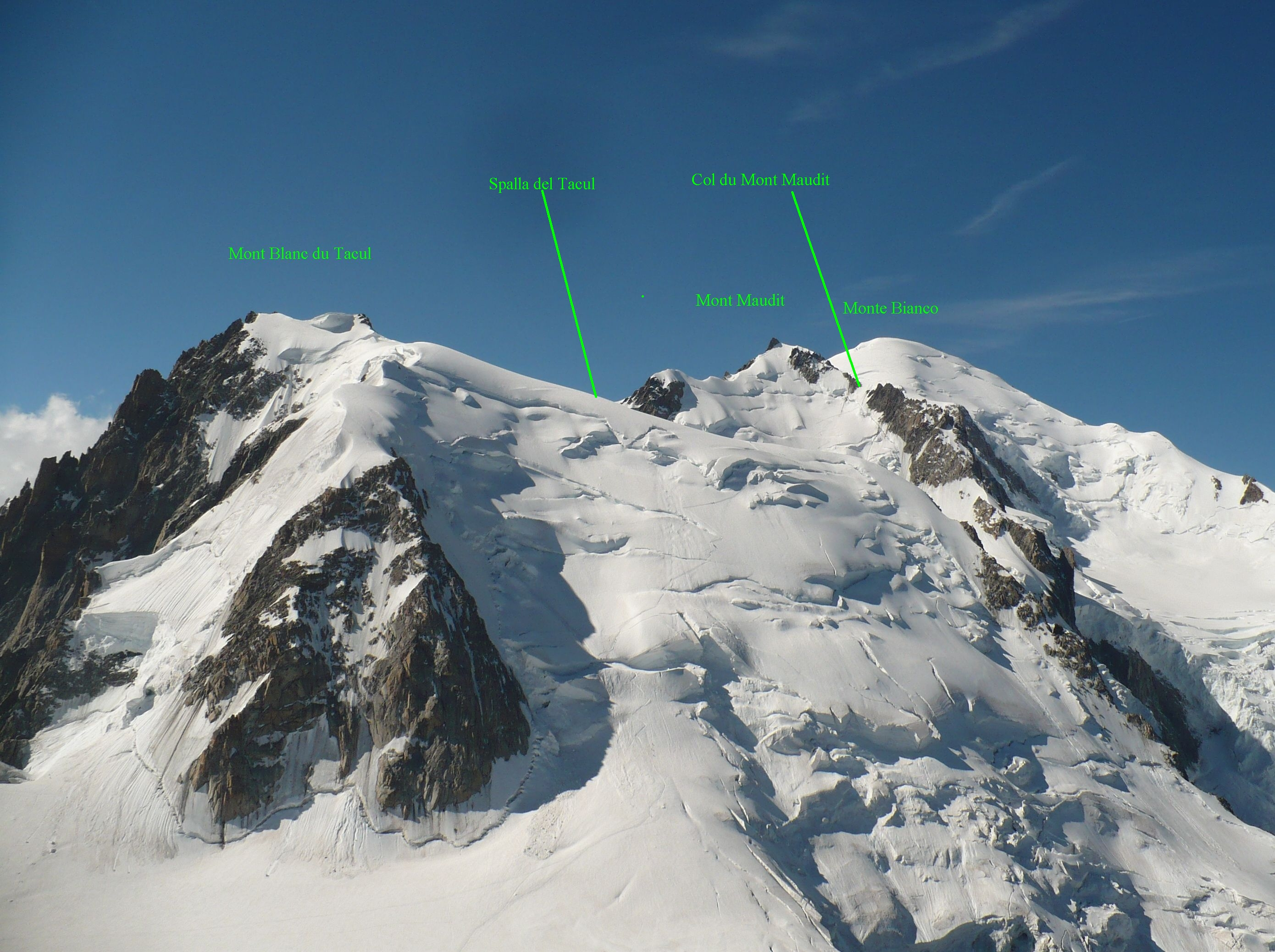 Mont Blanc, Mont Maudit et Mont Blanc du Tacul from Aiguille du Midi